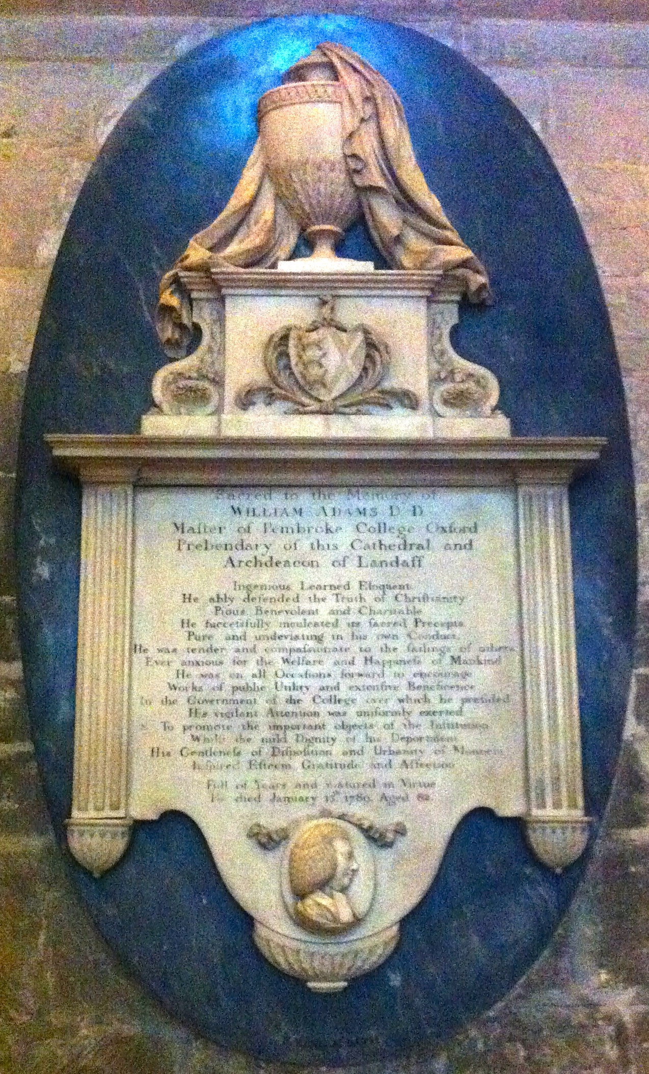 William Adams, Master of Pembroke College Oxford, Prebendary of Gloucester Cathedral and Archdeacon of Llandaff.